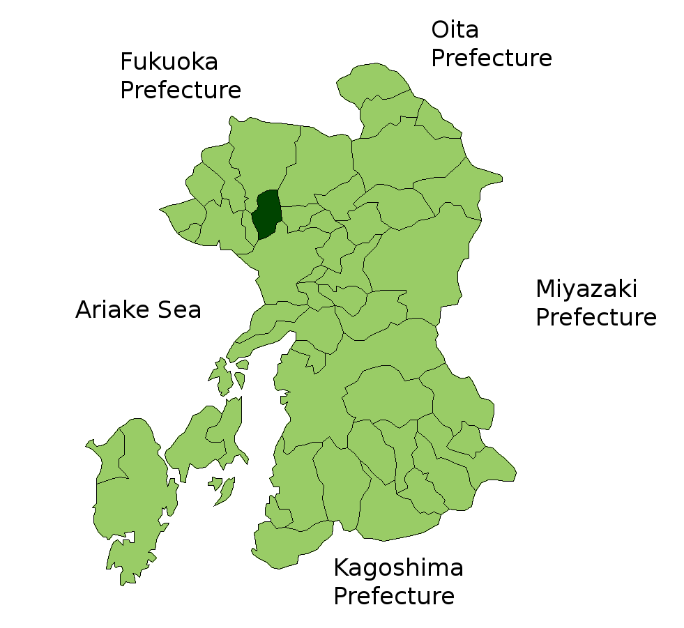 The location of Ueki in Kumamoto Prefectuur, Japan